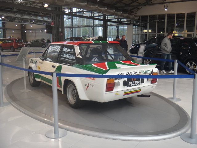 Fiat 131 Abarth Rally Car